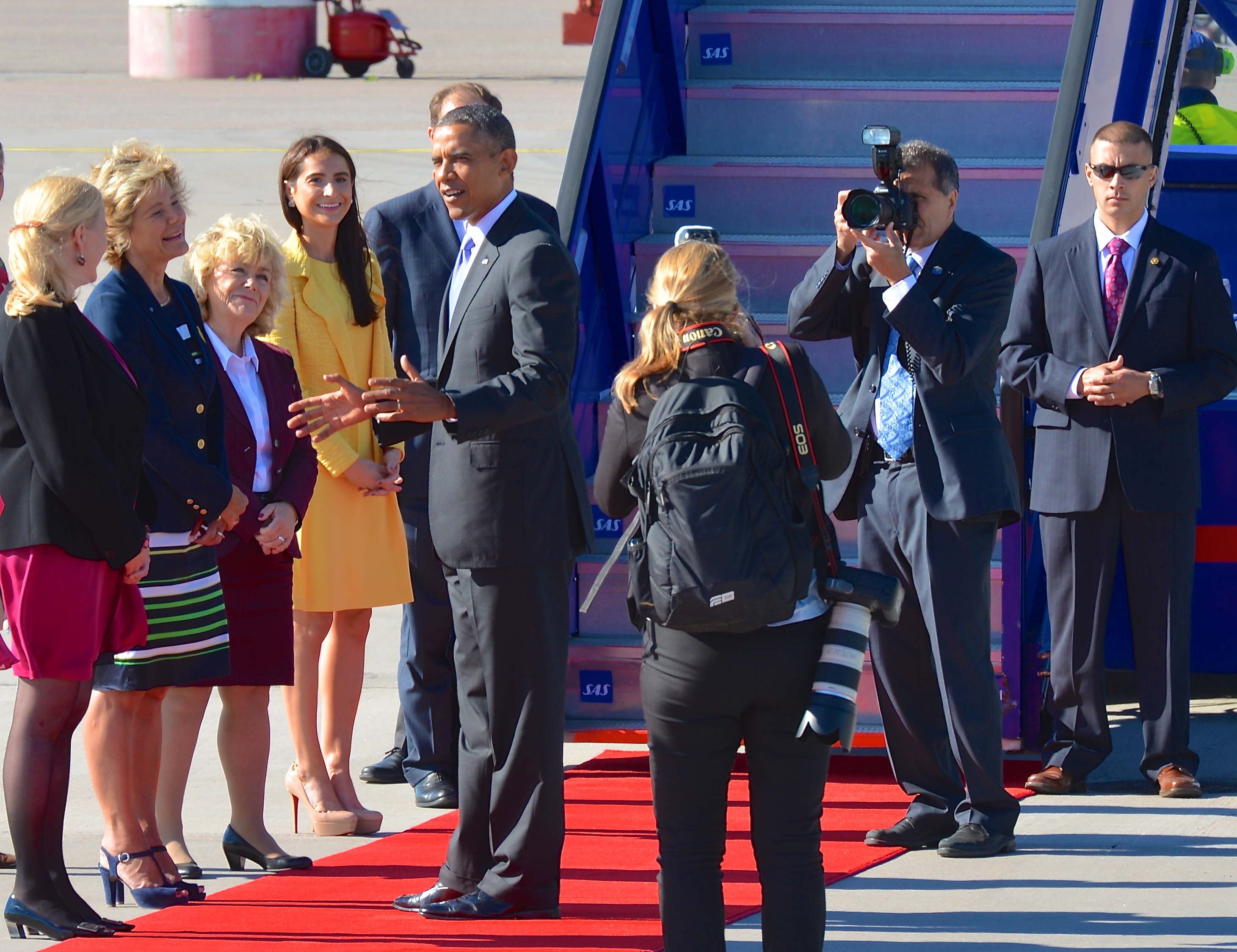 President Barack Obama leaves Sweden September 5, 2013 after a one day stop-over on his way to the G20 summit in Saint Petersburg.